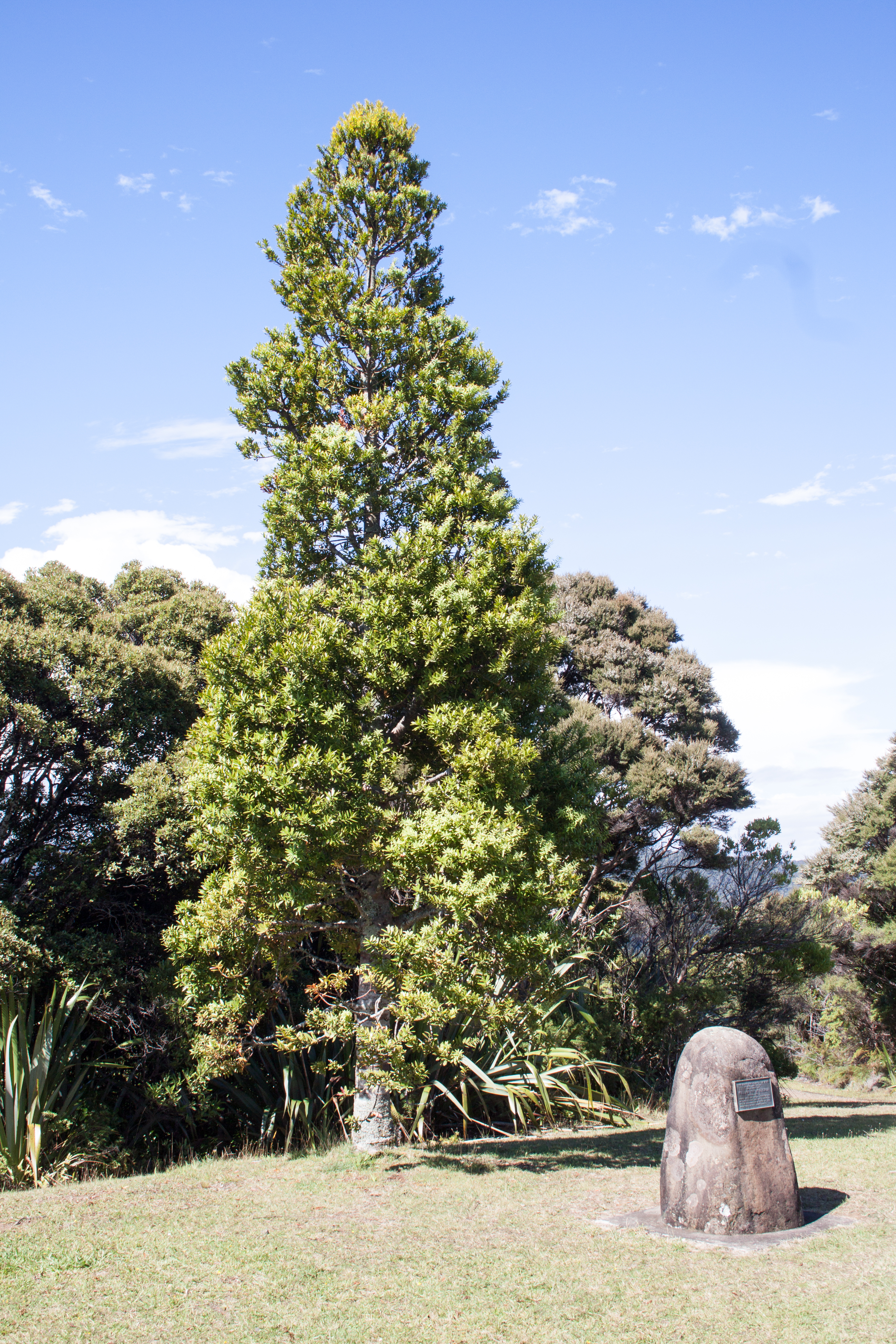 Waipoua Forest, fire lookout tower, kauri planted in 1979 in memory of William Roy McGregor